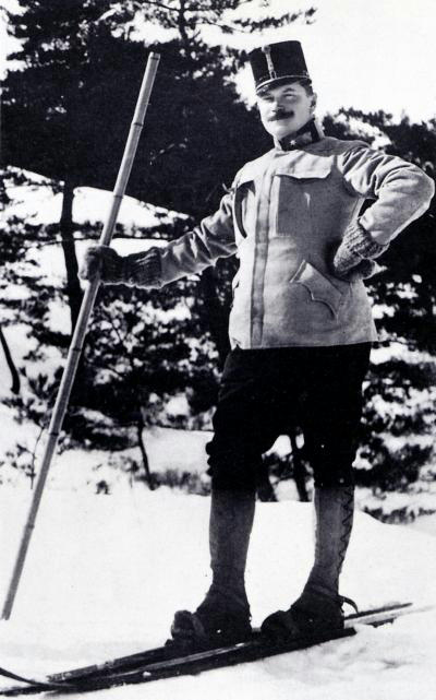 Theodor von Lerch(テオドール・エードラー・フォン・レルヒ), an Austrian major, teaching the first skiing for Japanese at Jōetsu, Niigata on 12 January 1911.